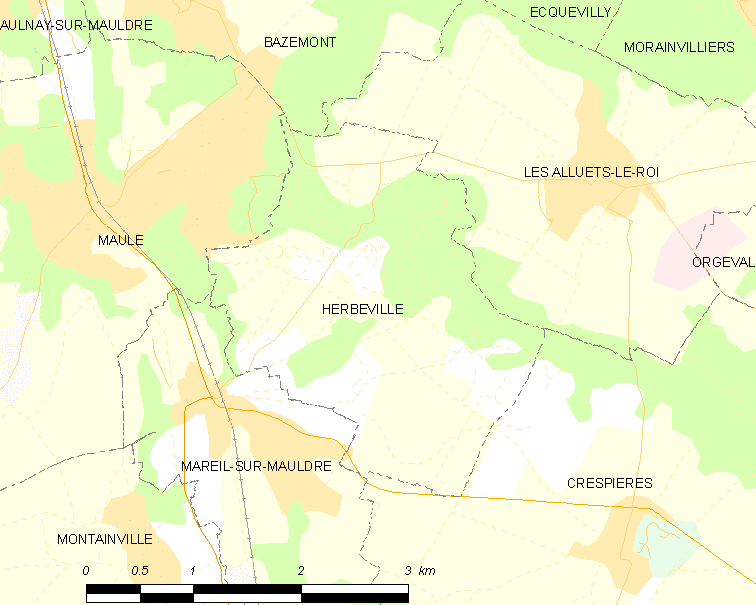 Map of French municipality Herbeville